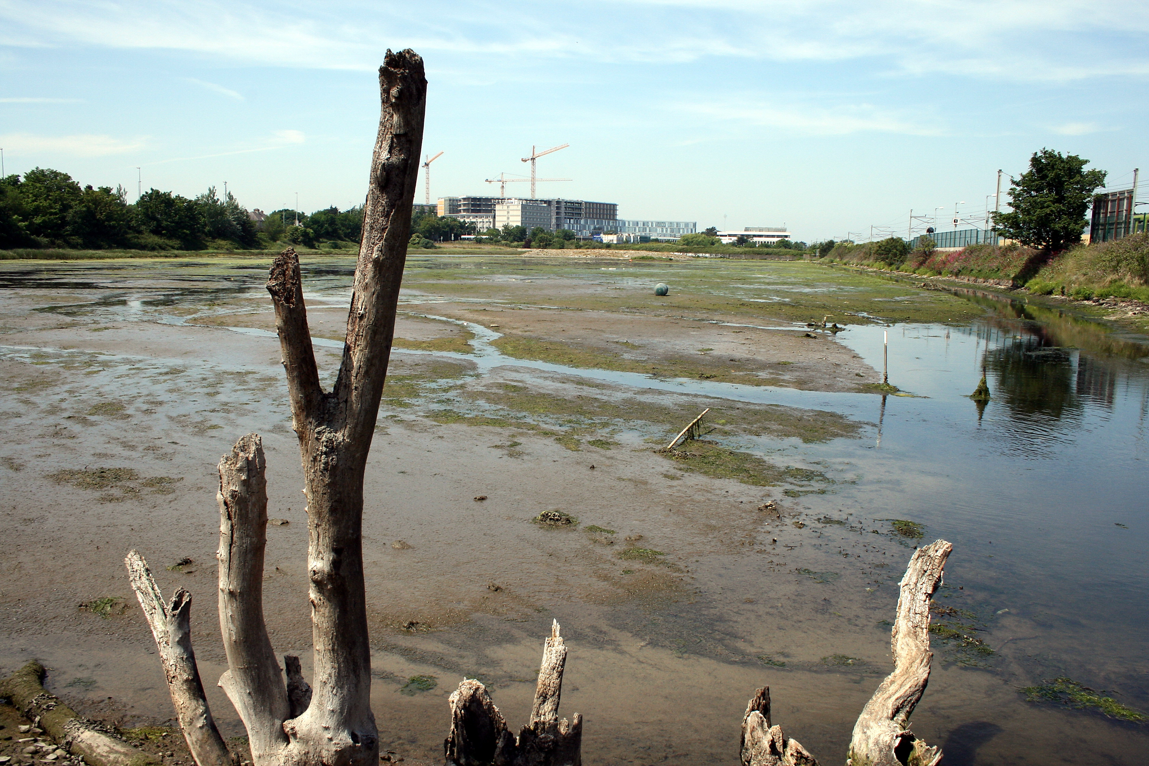 Booterstown Marsh, Dublin. Photo taken from railway station car-park which forms the Southeastern end of the rectangular marsh. To the right is the sea wall formed by the railway embankment; to the left higher ground bordered by the Rock Road and ahead in the distance the a culverted stream forms the Northeastern boundary of the marsh. (Though it looks like some fresh infill has been placed in the marsh in front of the culvert).